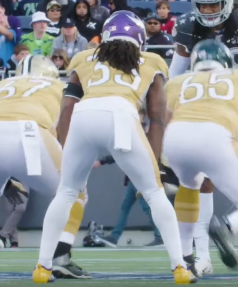 Dalvin Cook in 2020